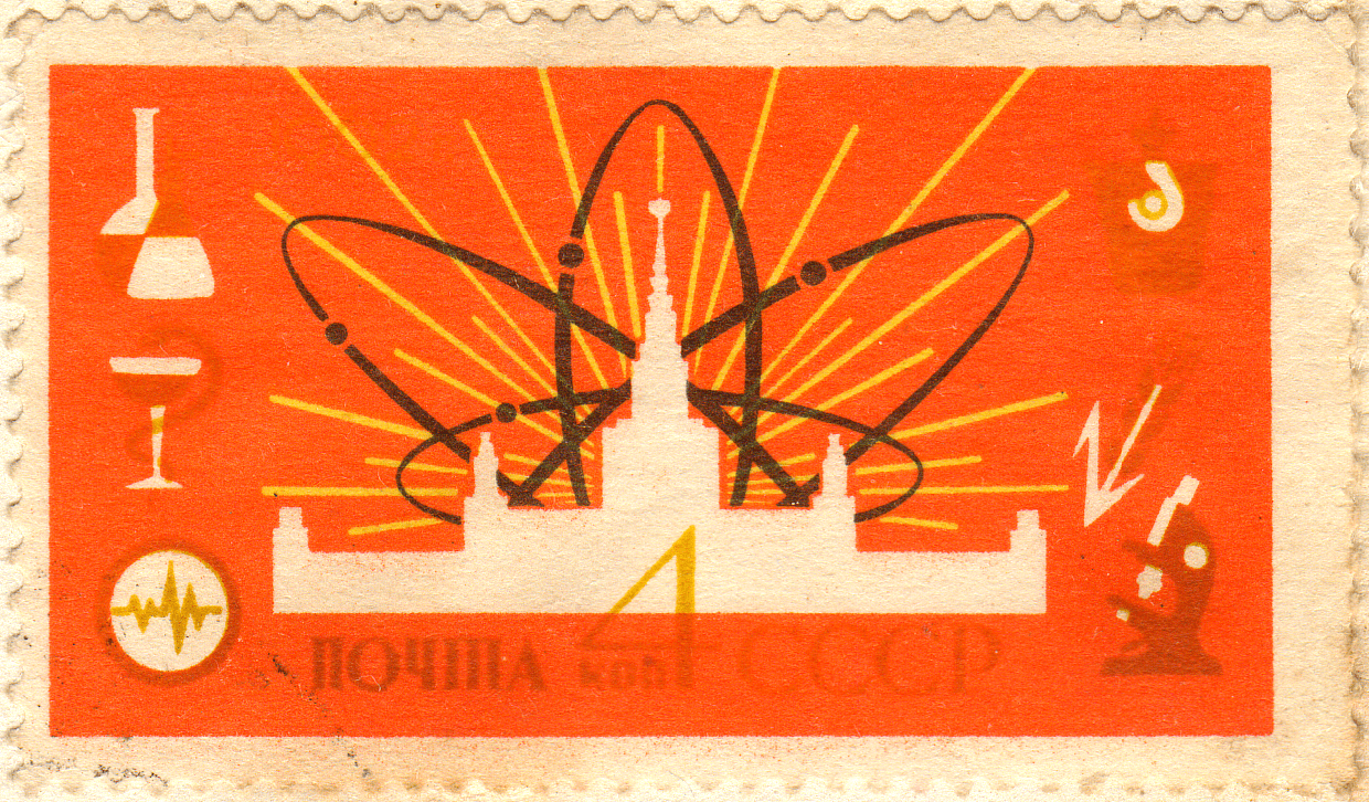 The stamp shows the main building of Moscow State University.